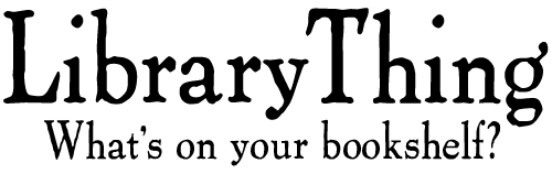 Logo of . Logos probably fall under fair use anyway, but, if not the website (of which I am the president) releases it for use on Wikipedia and etc. We only release the image, not the underlying trademark or, for example, the website... Lectiodifficilior History of Image:Logo4 medium.gif 2008-03-22T08:22:20Z Skier Dude (Talk